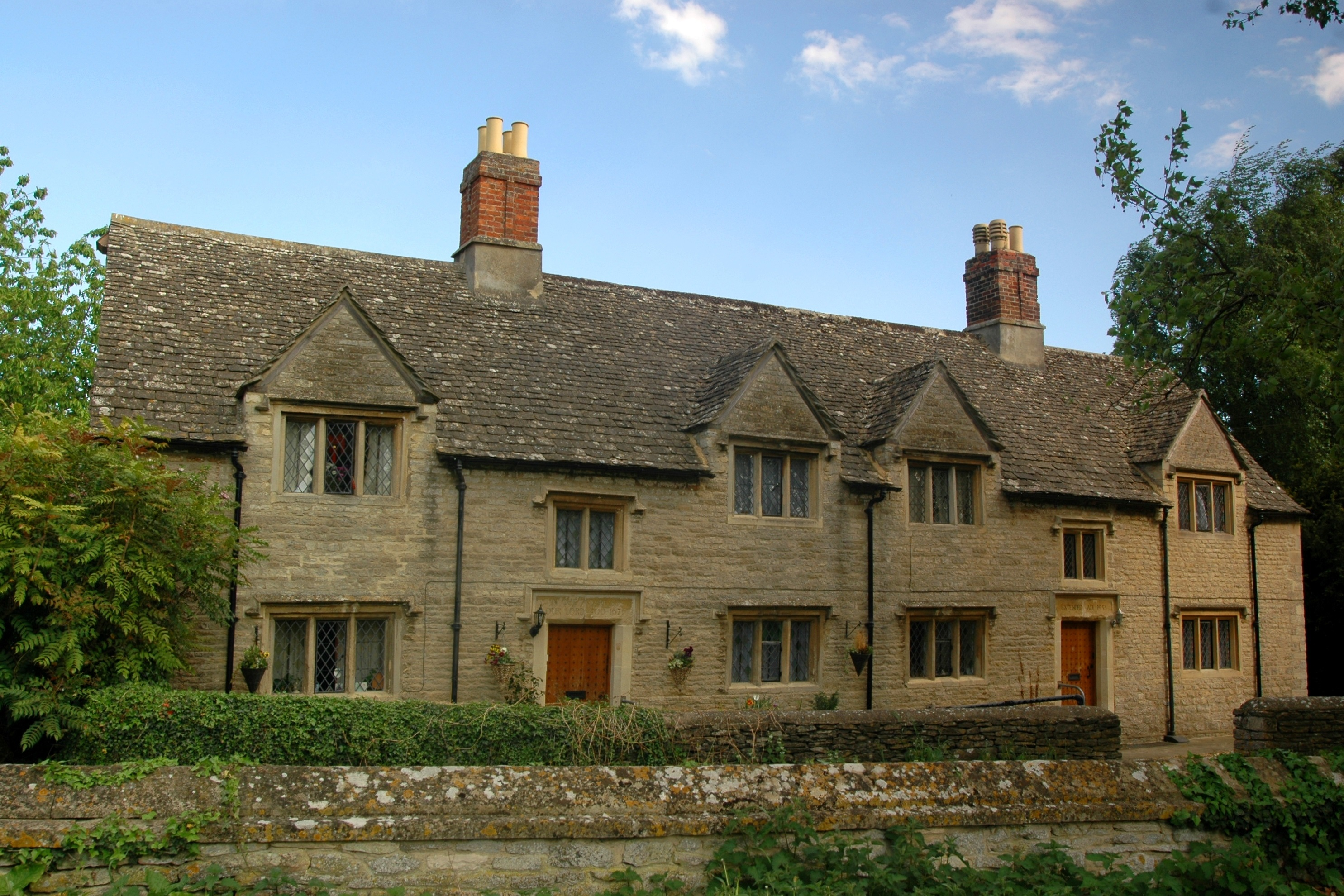 Lady Anne Morton's almshouses, Church Street, Kidlington, Oxfordshire.